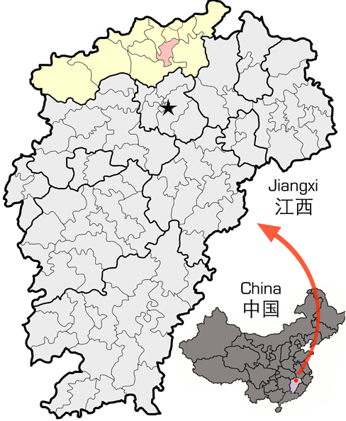 Map showing location of Xingzi, Jiujiang in Jiangxi Province China